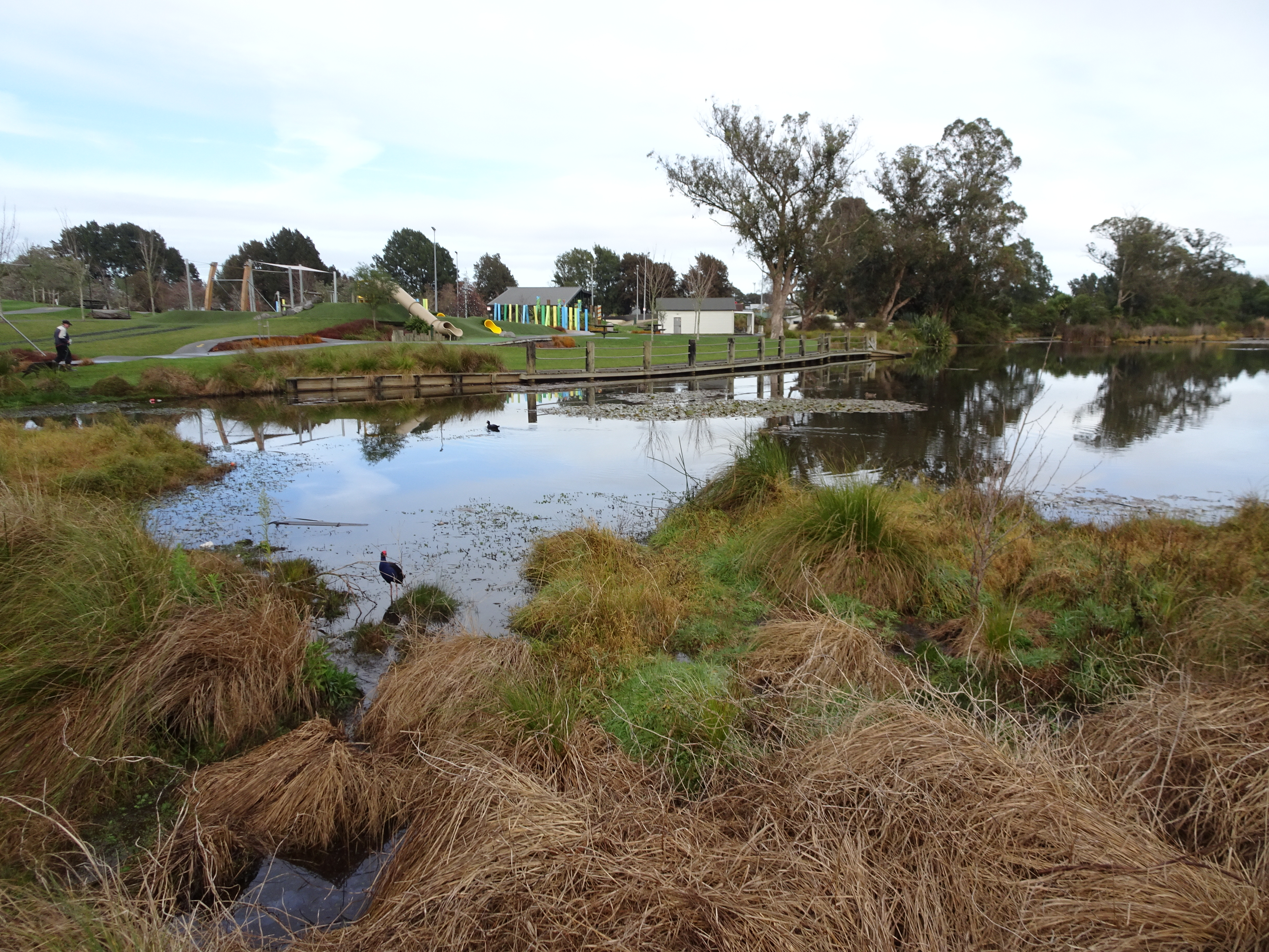 The lake used to extend further south